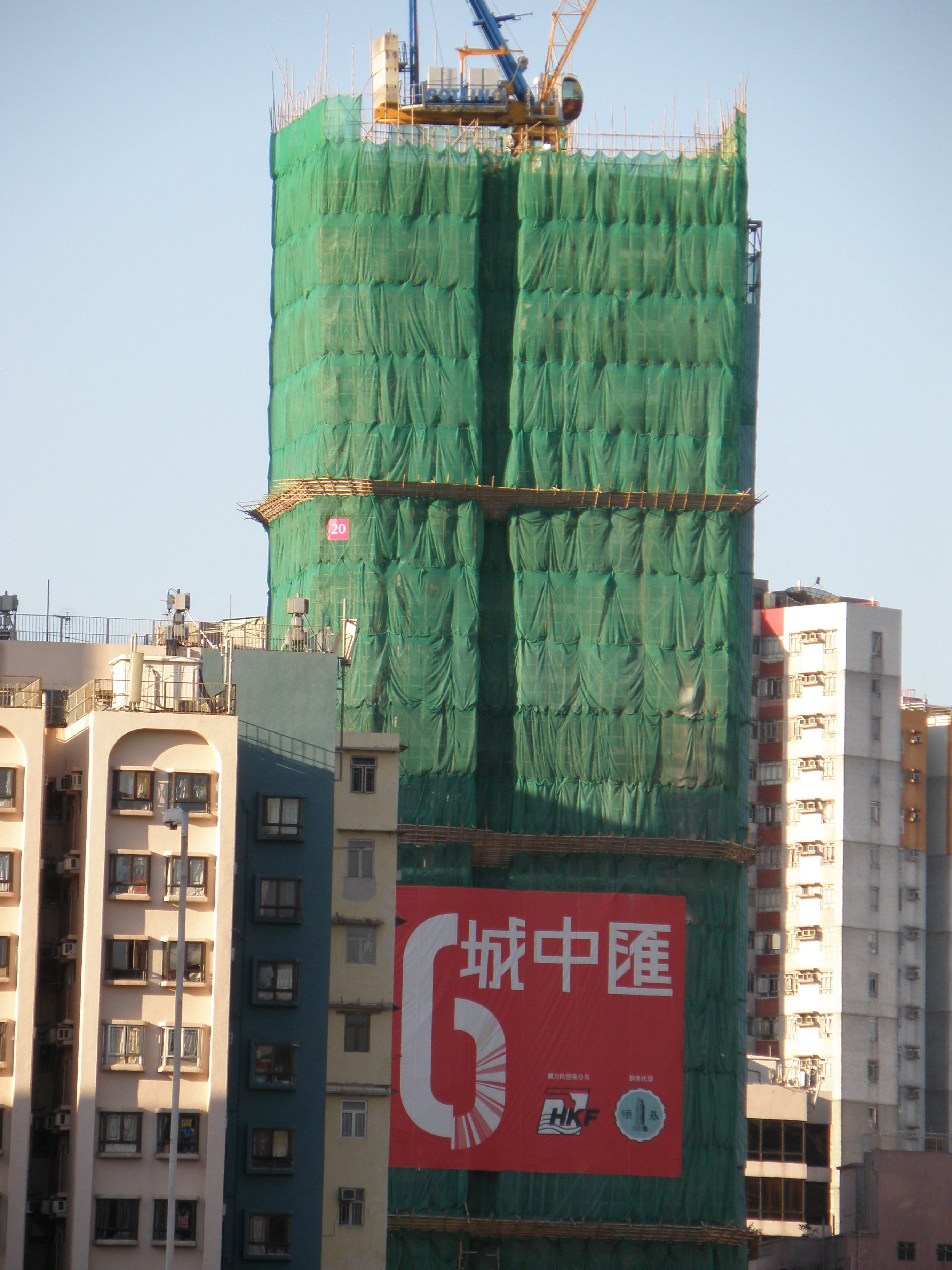 METRO6, a private residence in Hung Hom, Hong Kong.